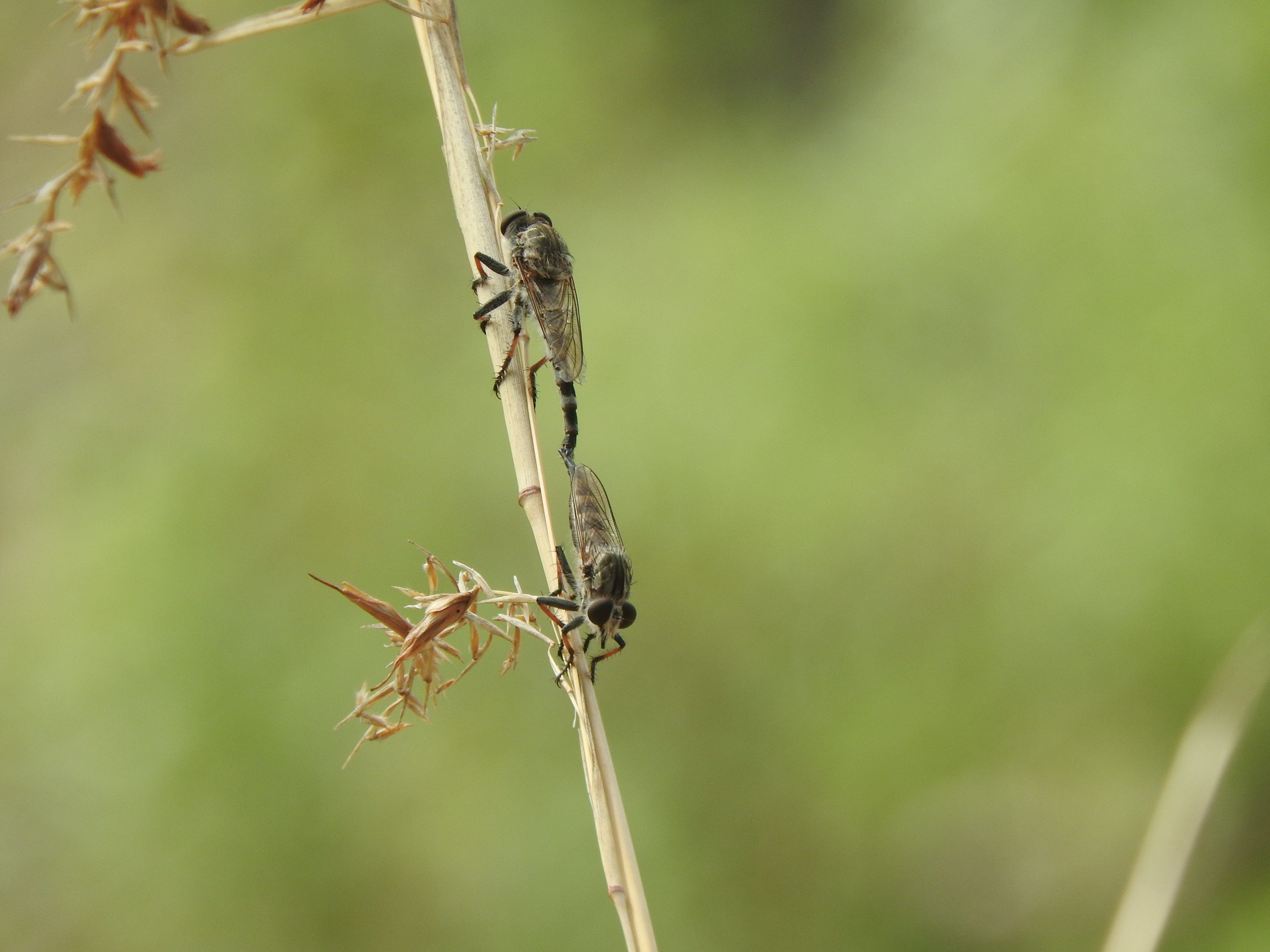 Seen in the picture is a pair of Robber flies (Asilidae) mating in a blade of lemon grass